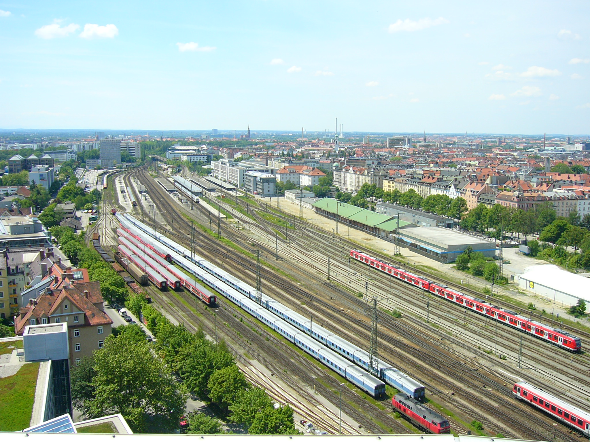 Station München Ost, (Germany), taken from Technischen Rathaus